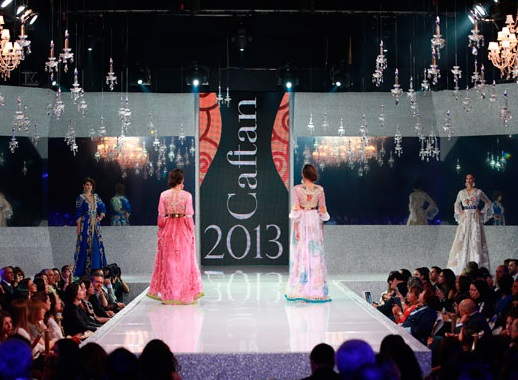 it's about the Moroccan Caftan Show in 2013